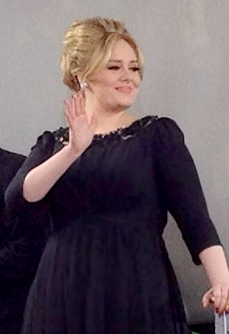 Crop from a photo, see below.